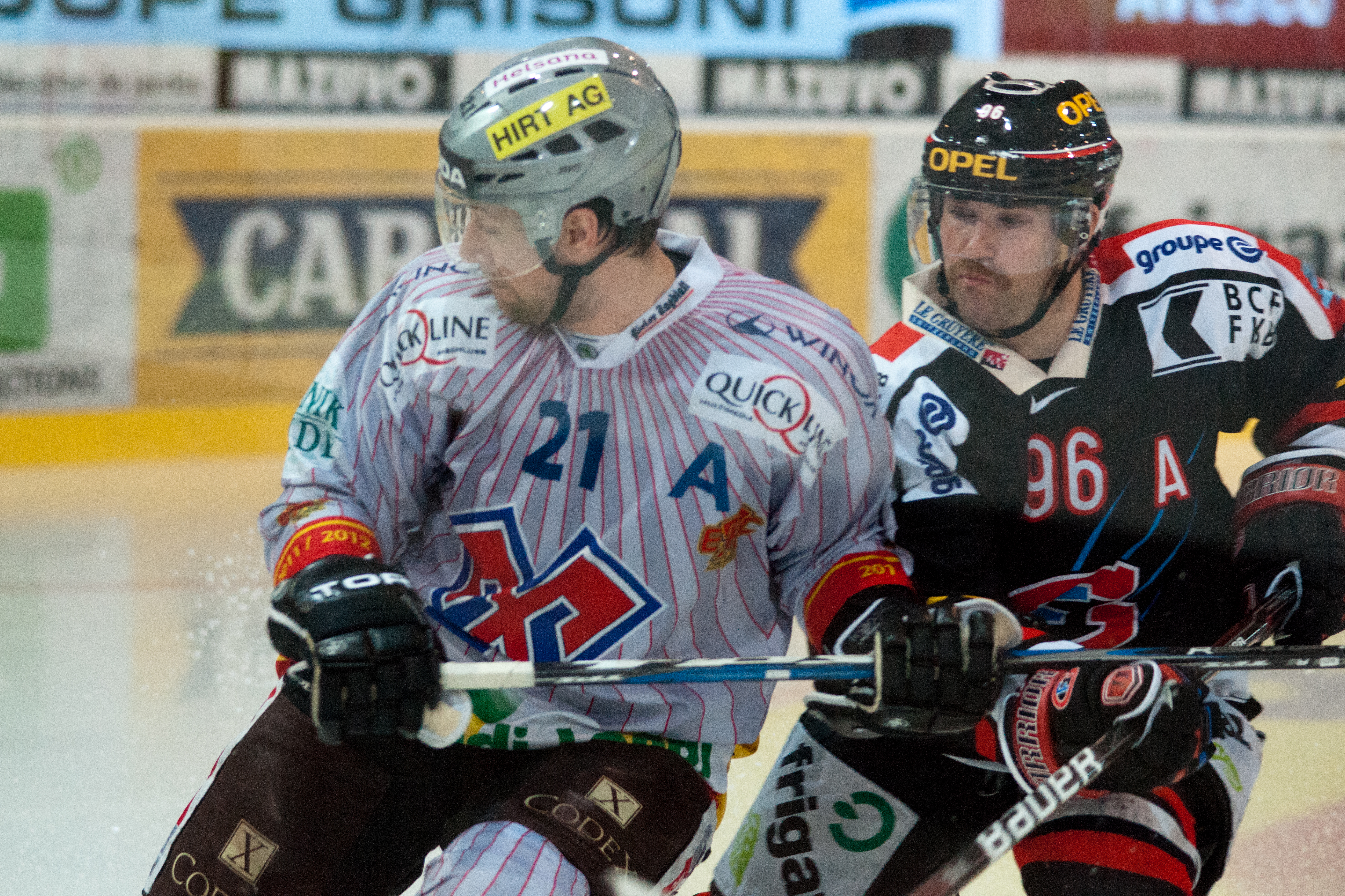 The making of this document was supported by Wikimedia CH. (Submit your project!) For all the files concerned, please see the category Supported by Wikimedia CH. Fribourg-Gotteron vs. HC Bienne, 25.11.2011